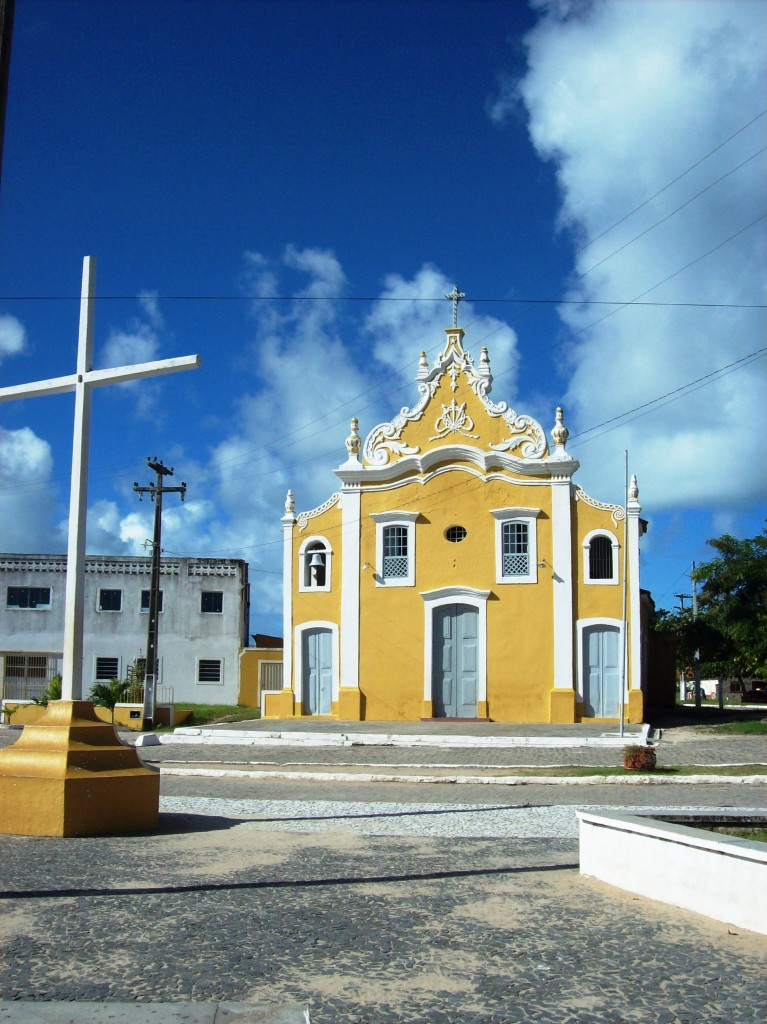 Pitimbue Beach